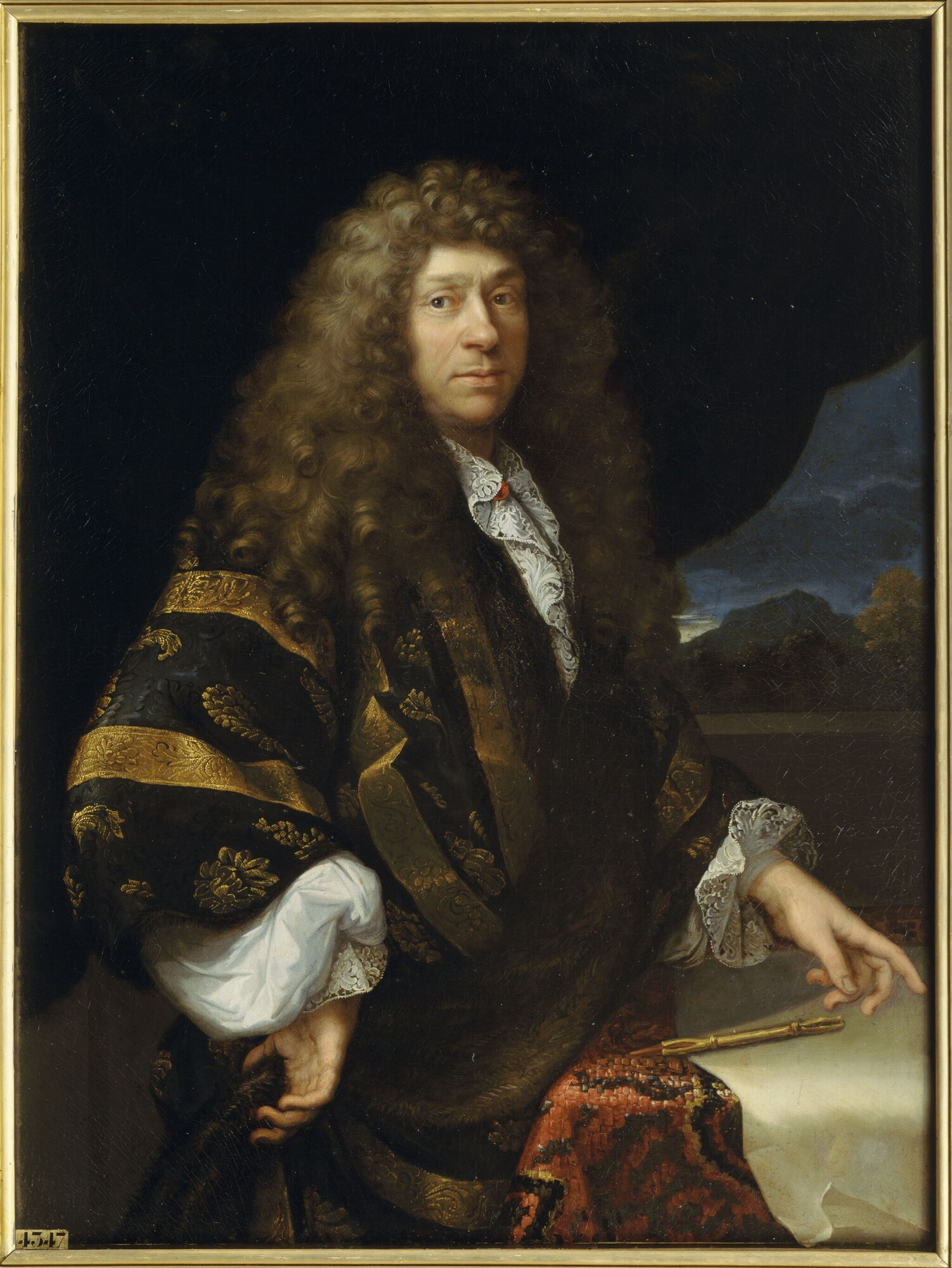 Depicted person: Gilbert de Sève – according to Hardouin (1994), a former hypothesis was that it was Nicolas Loir